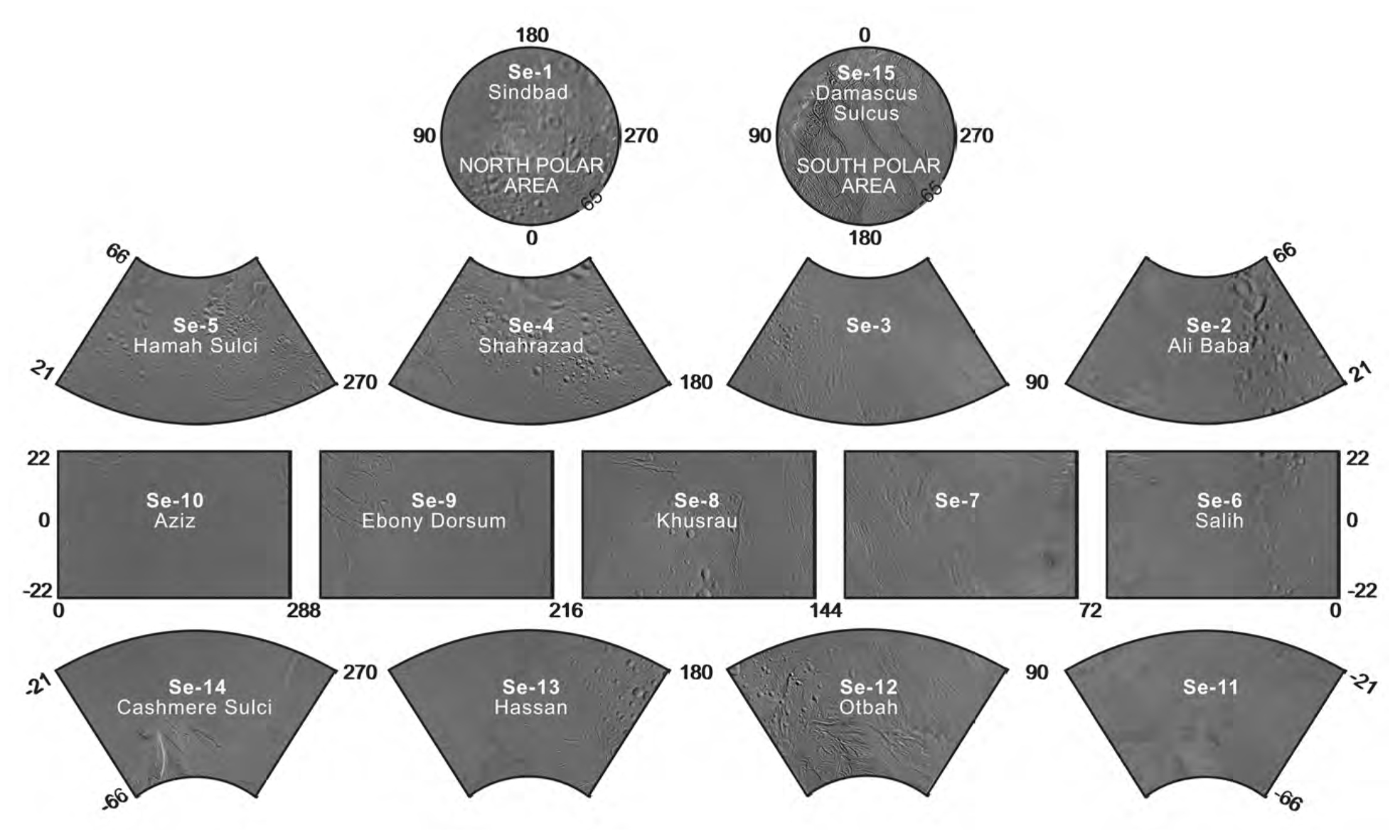 Presented here is a complete set of cartographic map sheets from a high-resolution Enceladus atlas, a project of the Cassini Imaging Team. The map sheets form a 15-quadrangle series covering the entire surface of Enceladus at a nominal scale of 1:500,000. An index for the atlas is included here, along with an unlabeled version of each terrain section. The map data was acquired by the Cassini imaging experiment. The mean radius of Enceladus used for projection of the maps is 252.1 kilometers (156.6 miles). Names for features have been approved by the International Astronomical Union (IAU). ERRATA (2008-02-13): Longitude System Discrepancy*** The maps presented here did not account for the most recent recommendations by the International Astronomical Union cartography working group as described in Seidelmann et al., 2007. There is a slight difference (about 0.9 degrees) between the longitudes given in this atlas and the IAU definition. With the new recommendations, crater Salih should have a fixed longitude of 5 degrees West. Crater Salih is hardly visible in the Cassini images therefore the exact consequences of preparation of these maps without the new recommendations is difficult to estimate. Crater Salih will be imaged with better resolution during the upcoming Enceladus flybys in 2008. The imaging team will use these coming images to determine the exact shift between the current atlas and the IAU definition and will release a corrected (shifted) version of this atlas in 2009.